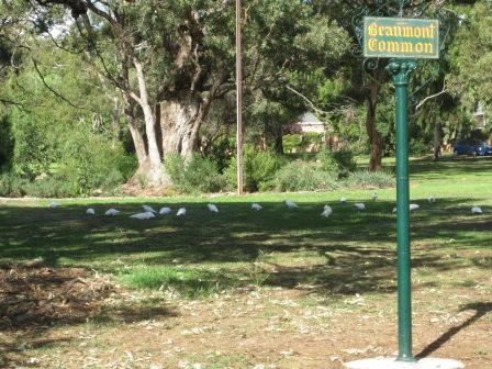 Southern side of Beaumont Common, located opposite the intersection of Sturt Place and West Terrace, Beaumont, South Australia.